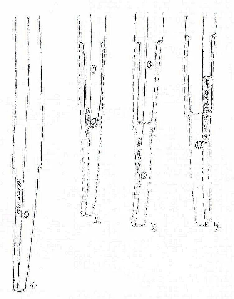 Types of the Nakago after shortening at japanese swords